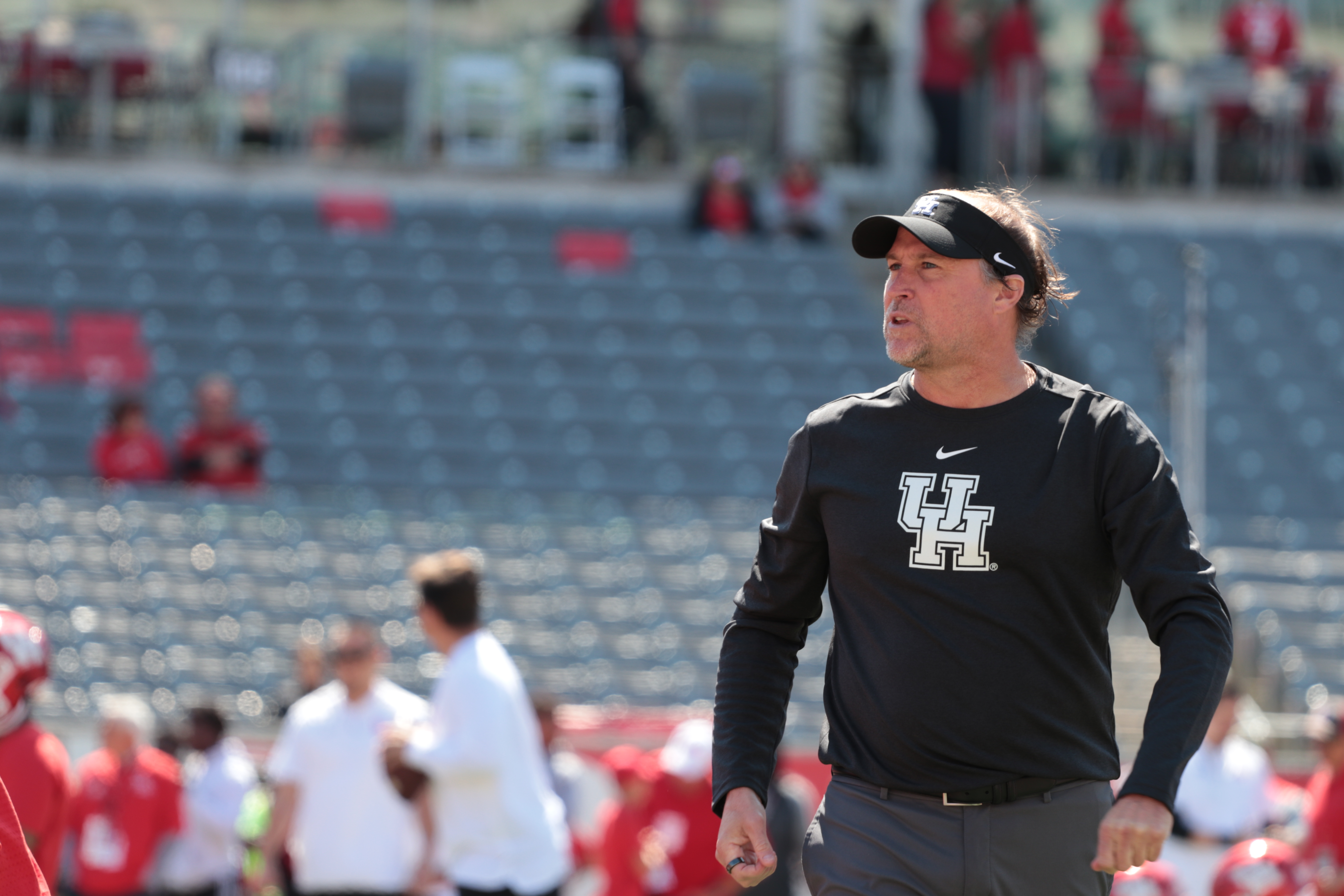 Dana Holgorsen pregame - Houston Cougars football vs. Cincinnati Bearcats